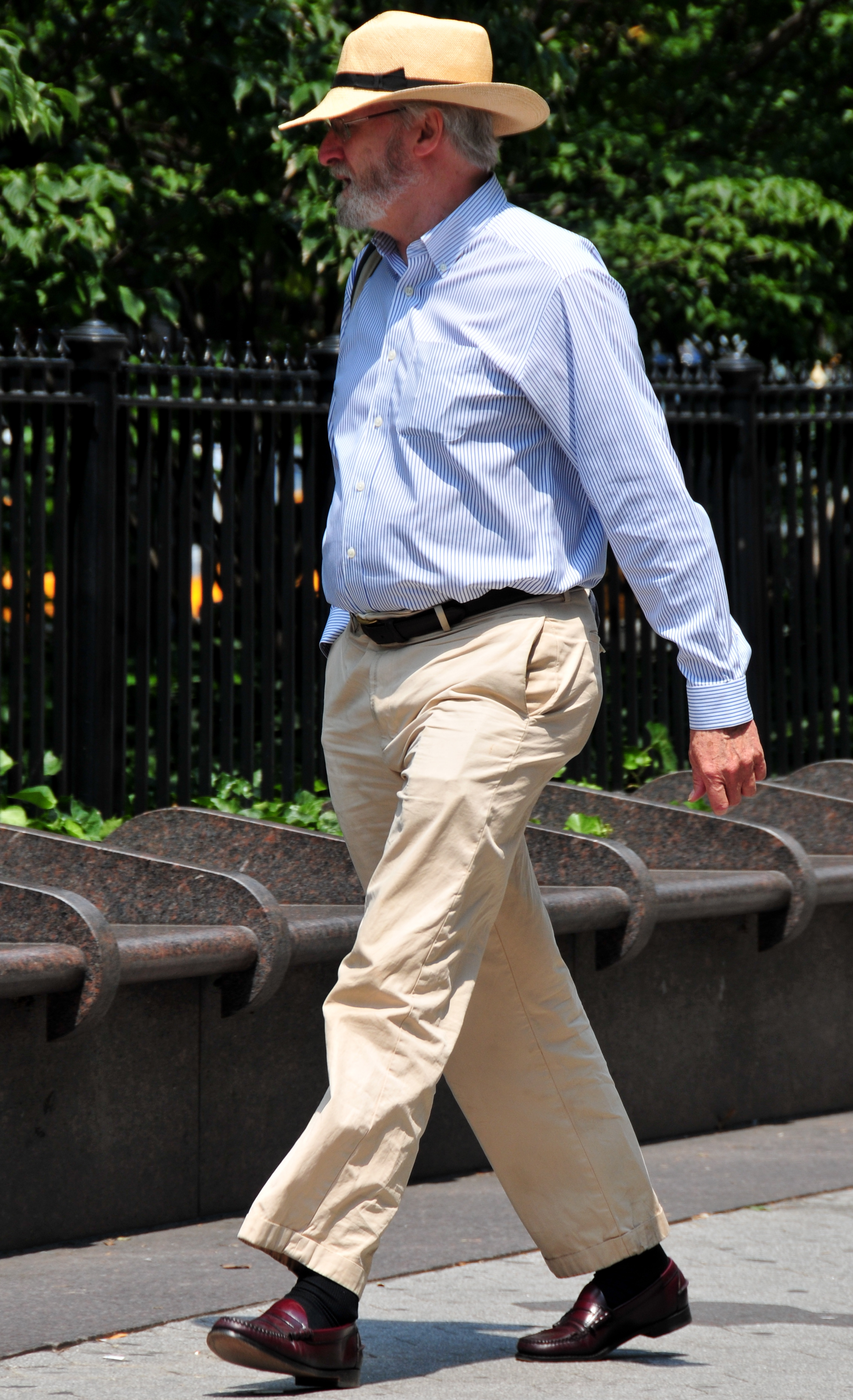 This dapper gentleman was striding toward the north-side 72nd Street subway entrance in Verdi Square. You don't see many men wearing "old-fashioned" hats in New York CIty, but this was obviously chosen for the shade that it provided on this hot, sunny mid-day ... his shoes, khaki pants, and striped shirt also reminded me of an earlier time. Maybe businessmen still dress like this in mid-town Manhattan, or down in the Wall Street area -- but it's very uncommon in this residential area of the Upper West Side.